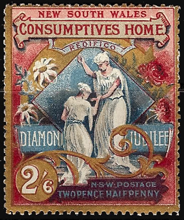 The first in the world New South Wales semi-postal stamp, 1897, 2½ p. (+ 2 sh. 6 p.)